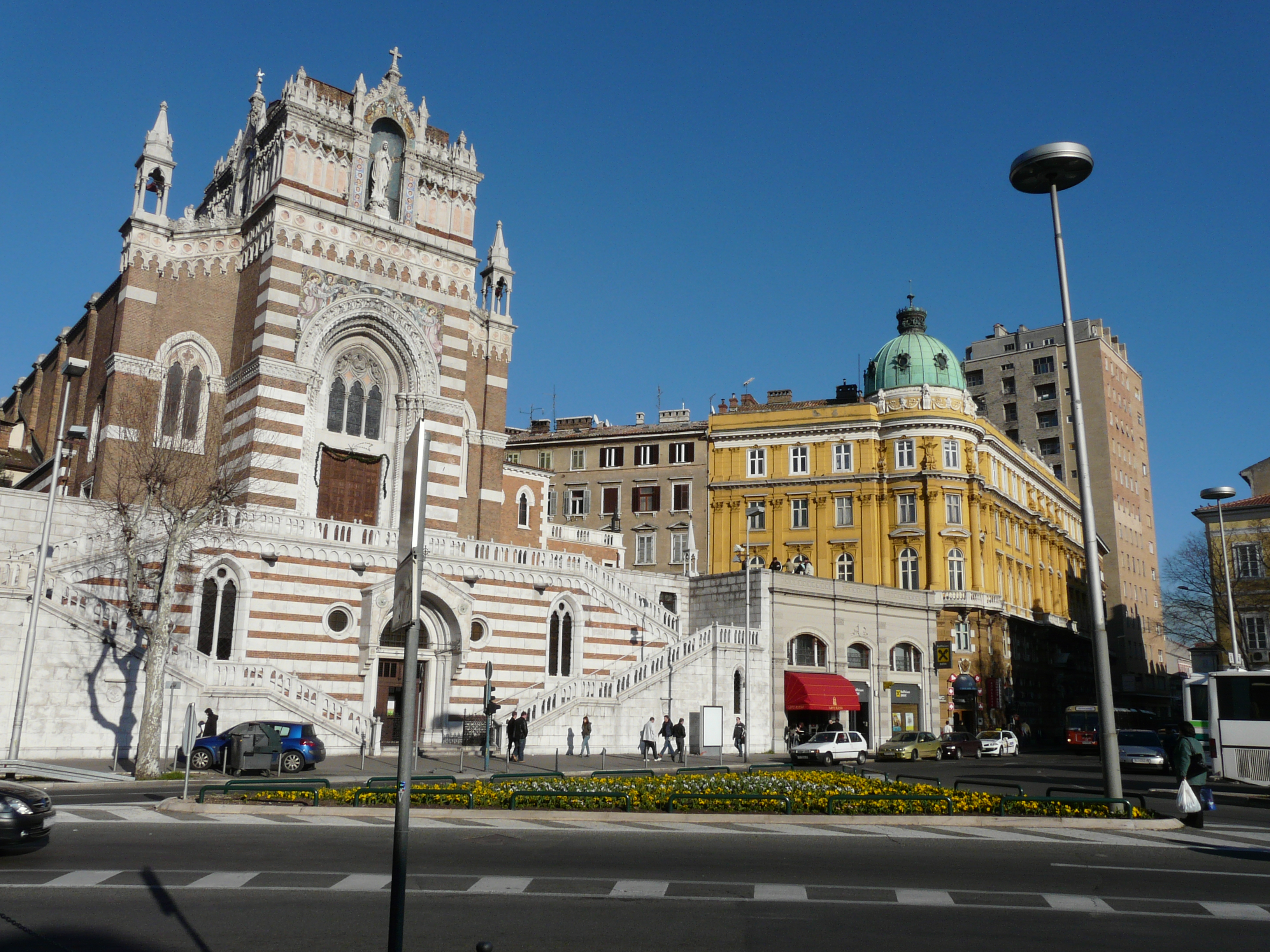 Capuchin church, palace Ploche, Riječki neboder. Rijeka, Croatia. February, 2008.